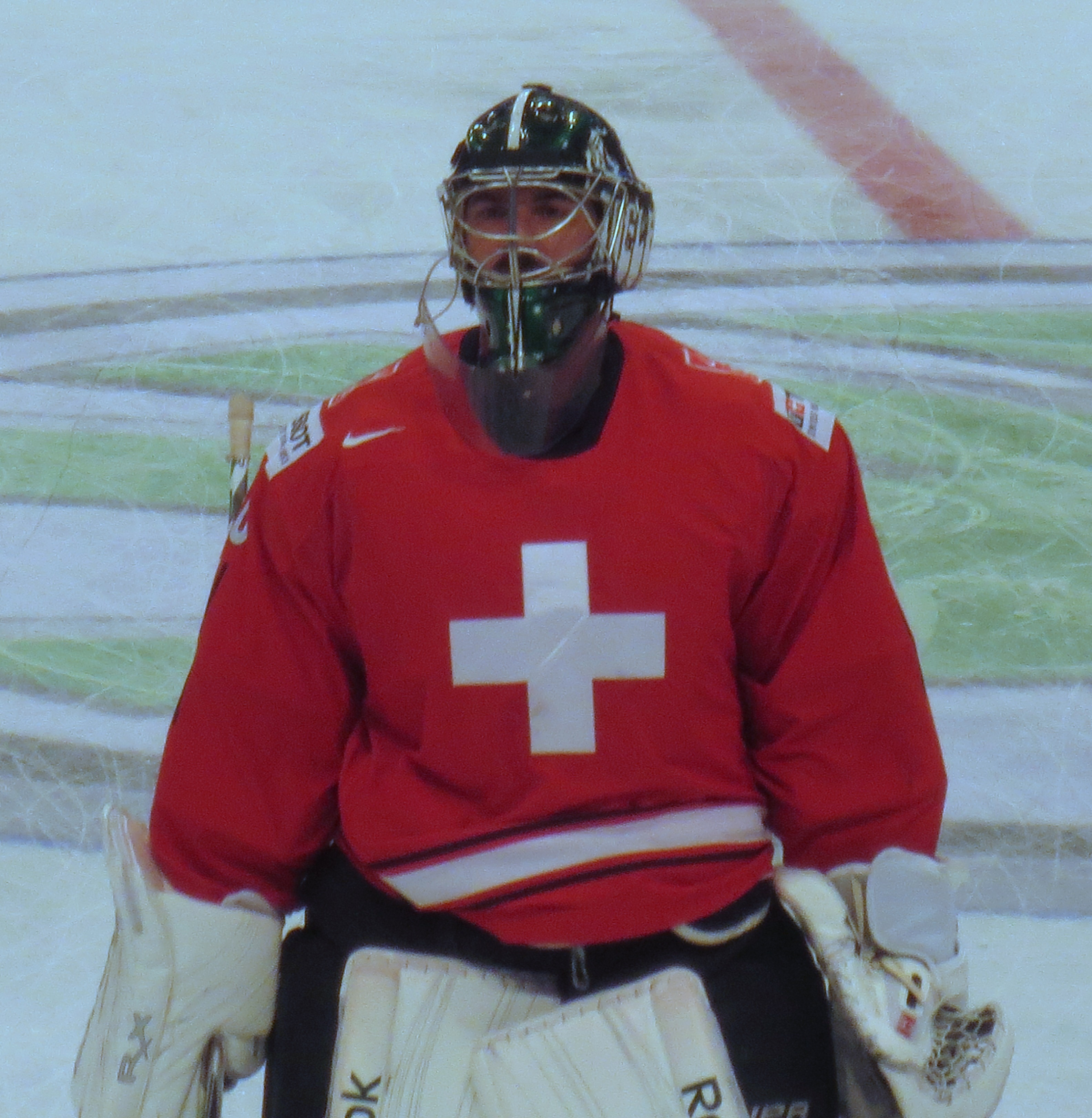 Reto Berra before the 2013 World Championship semi-final versus the United States.